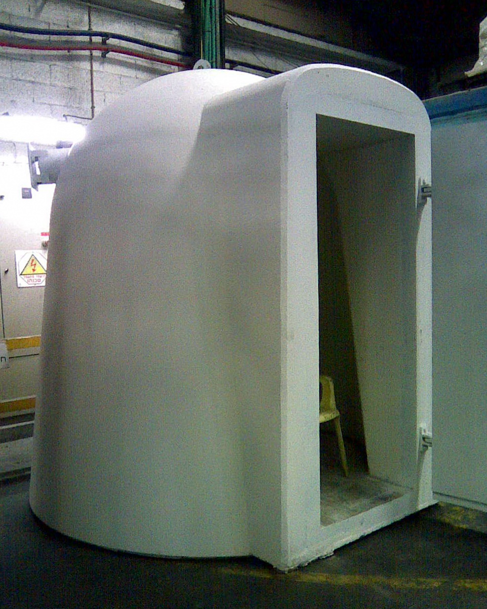 Mobile small-size conctrete shelters, stationed in Israel near Gaza during Operation Protective Edge